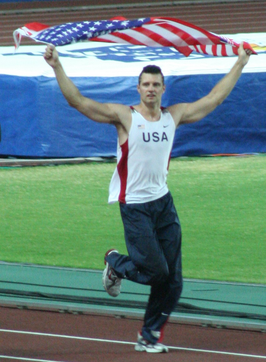 World Athletics Championships 2007 in Osaka - Pole Vault winner Brad Walker celebrating